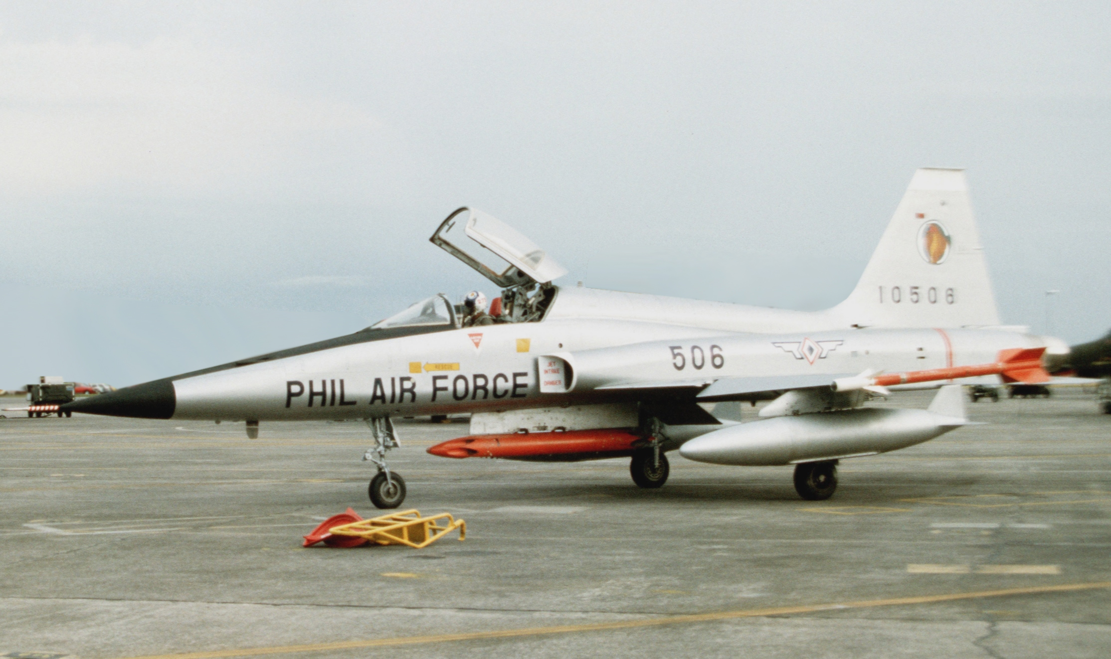 F-5E Philippine